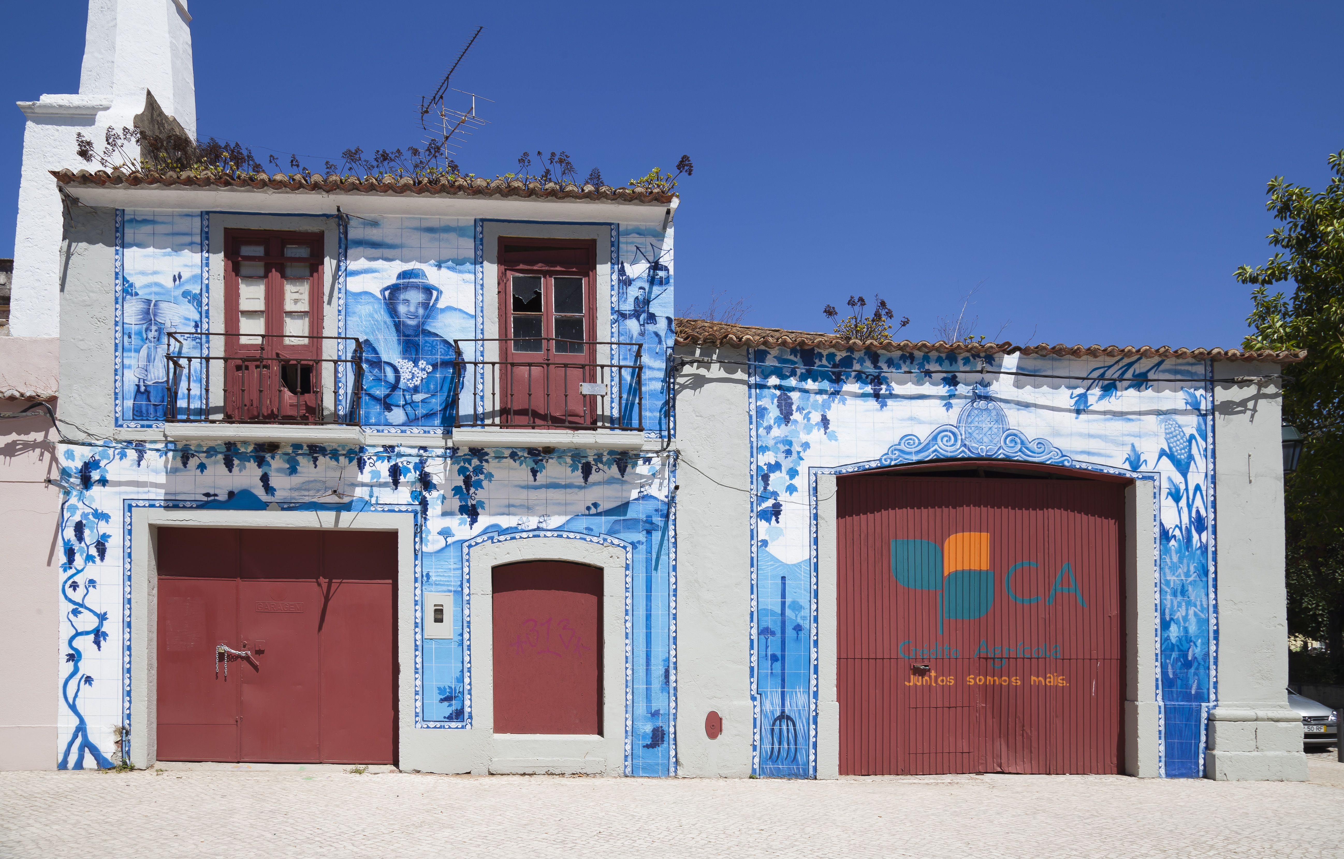 Azulejos building, Avenue Luisa Tody, Setúbal, Portugal